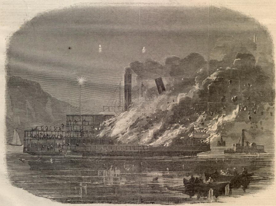 Steamboat Isaac Newton burning on the Hudson River, December 5, 1863, as depicted in Harper's Weekly.